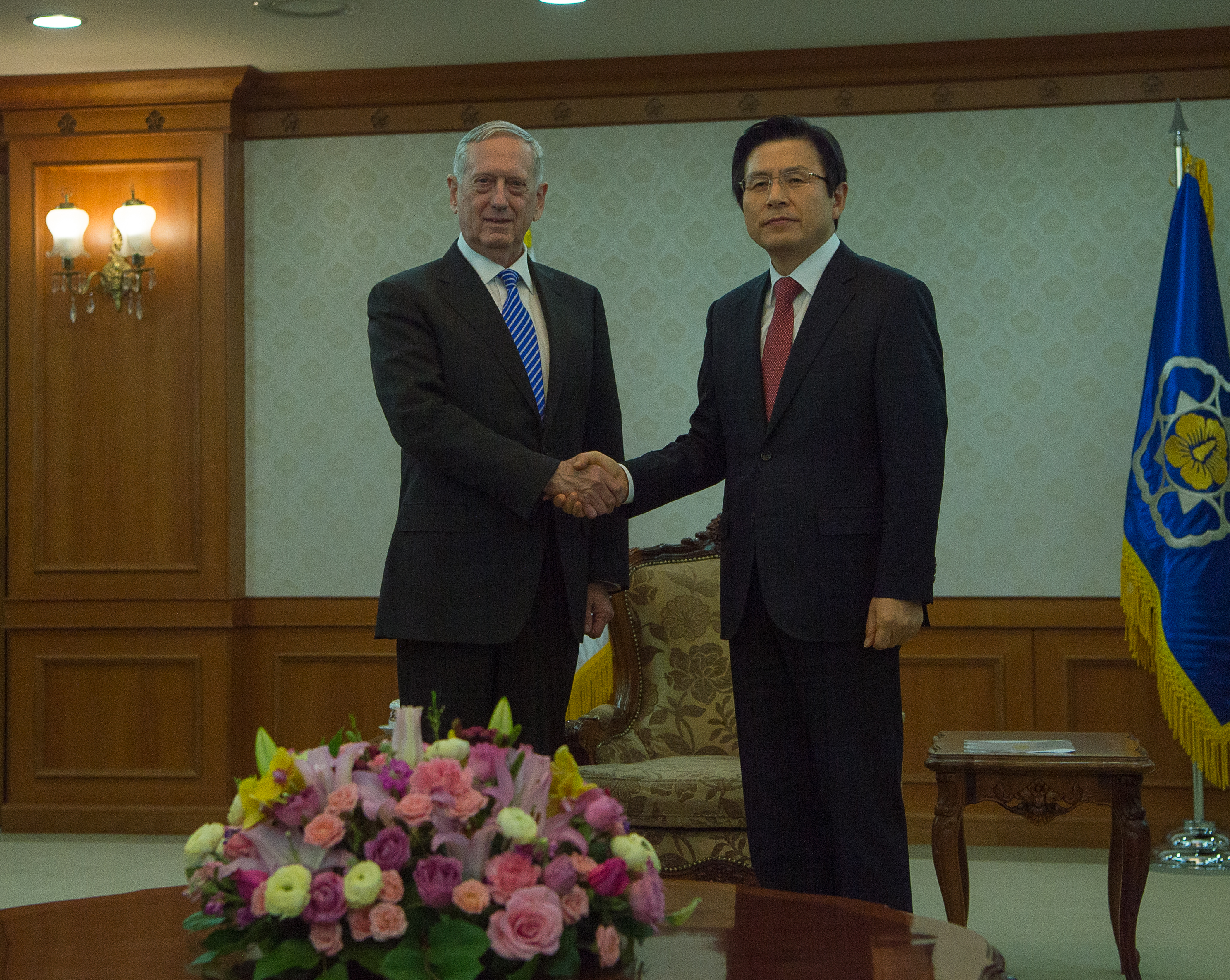 Defense Secretary Jim Mattis meets with the acting President of the Republic of Korea, Prime Minister Hwang Kyo-ahn, during a visit to Seoul, South Korea, Feb. 02, 2017. (DOD photo by Army Sgt. Amber I. Smith)